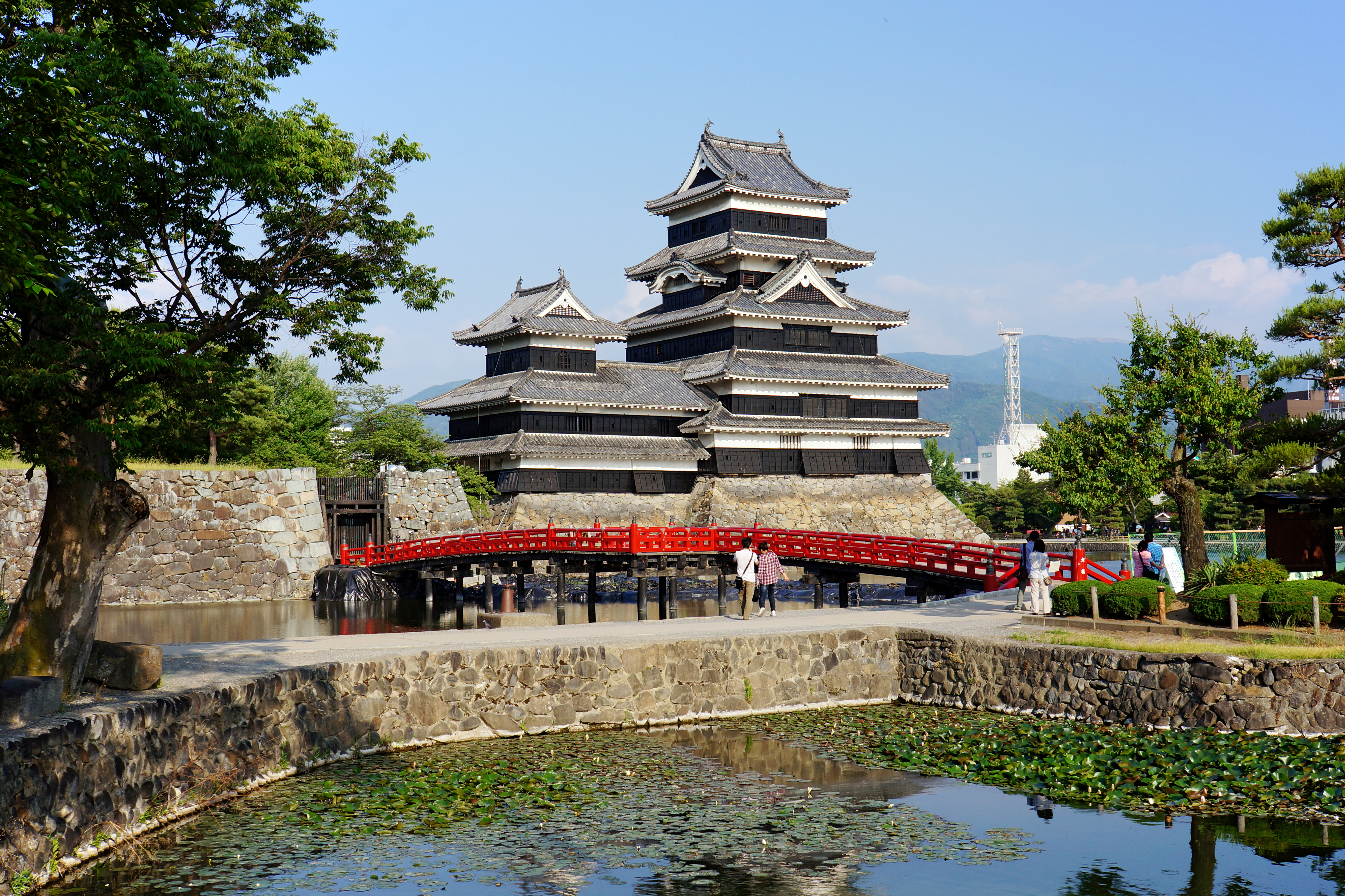 Matsumoto Castle is a National Treasure of Japan in Matsumoto, Nagano prefecture, Japan.